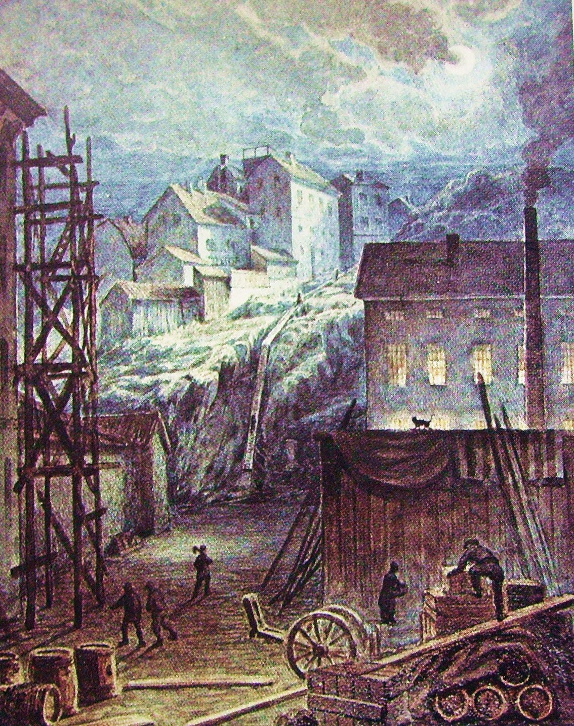 Picture of painting of Keillers Mekaniska Verstad (Götaverken) in Göteborg